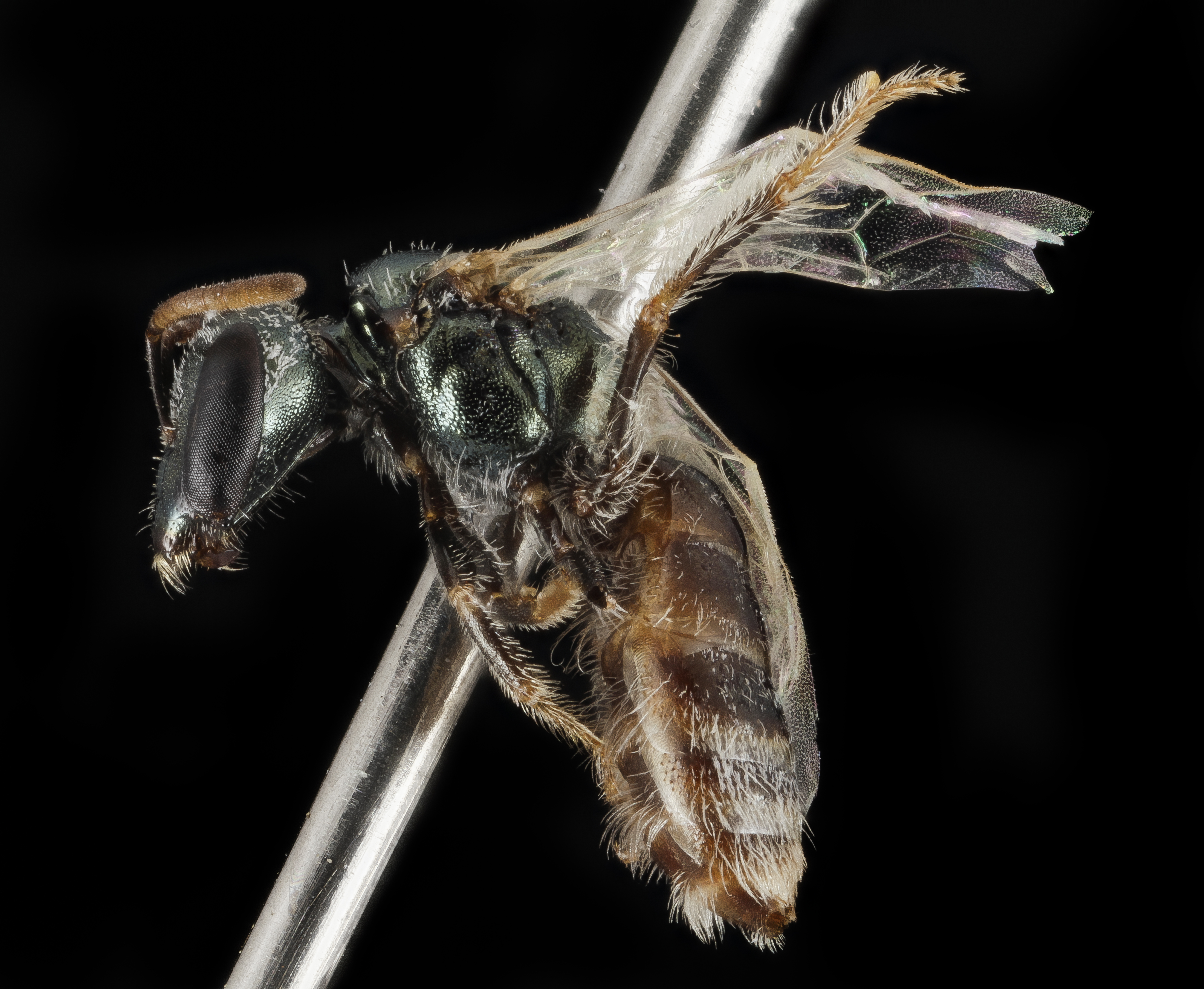 Lasioglossum brunneiventre. Small, long head, found in the Mojave National Preserve in studies of sandy areas in National Parks. Photographs by Brooke Alexander. 00:50, 1 July 2017 (UTC)00:50, 1 July 2017 (UTC) 0 00:50, 1 July 2017 (UTC)00:50, 1 July 2017 (UTC) All photographs are public domain, feel free to download and use as you wish. Photography Information: Canon Mark II 5D, Zerene Stacker, Stackshot Sled, 65mm Canon MP-E 1-5X macro lens, Twin Macro Flash in Styrofoam Cooler, F5.0, ISO 100, Shutter Speed 200 Beauty is truth, truth beauty - that is all Ye know on earth and all ye need to know " Ode on a Grecian Urn" John Keats You can also follow us on Instagram - account = USGSBIML Want some Useful Links to the Techniques We Use? Well now here you go Citizen: Art Photo Book: Bees: An Up-Close Look at Pollinators Around the World Basic USGSBIML set up: USGSBIML Photoshopping Technique: Note that we now have added using the burn tool at 50% opacity set to shadows to clean up the halos that bleed into the black background from "hot" color sections of the picture. PDF of Basic USGSBIML Photography Set Up: ftp://ftpext.usgs.gov/pub/er/md/laurel/Droege/How%20to%20Take%20MacroPhotographs%20of%20Insects%20BIML%20Lab2.pdf Google Hangout Demonstration of Techniques: or Excellent Technical Form on Stacking: Contact information: Sam Droege 301 497 5840